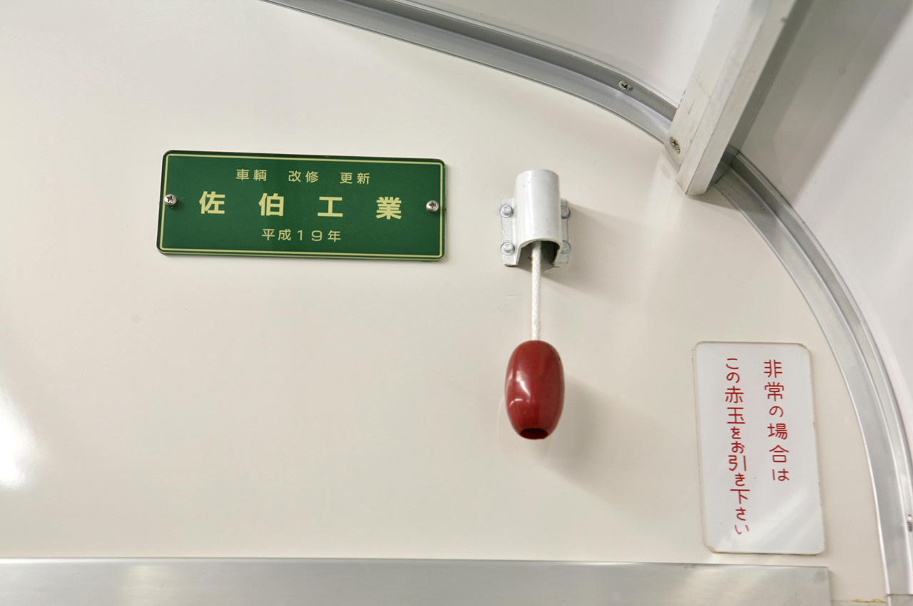 An emergency cock of the Mizuma Railway Type 1000 EMU.